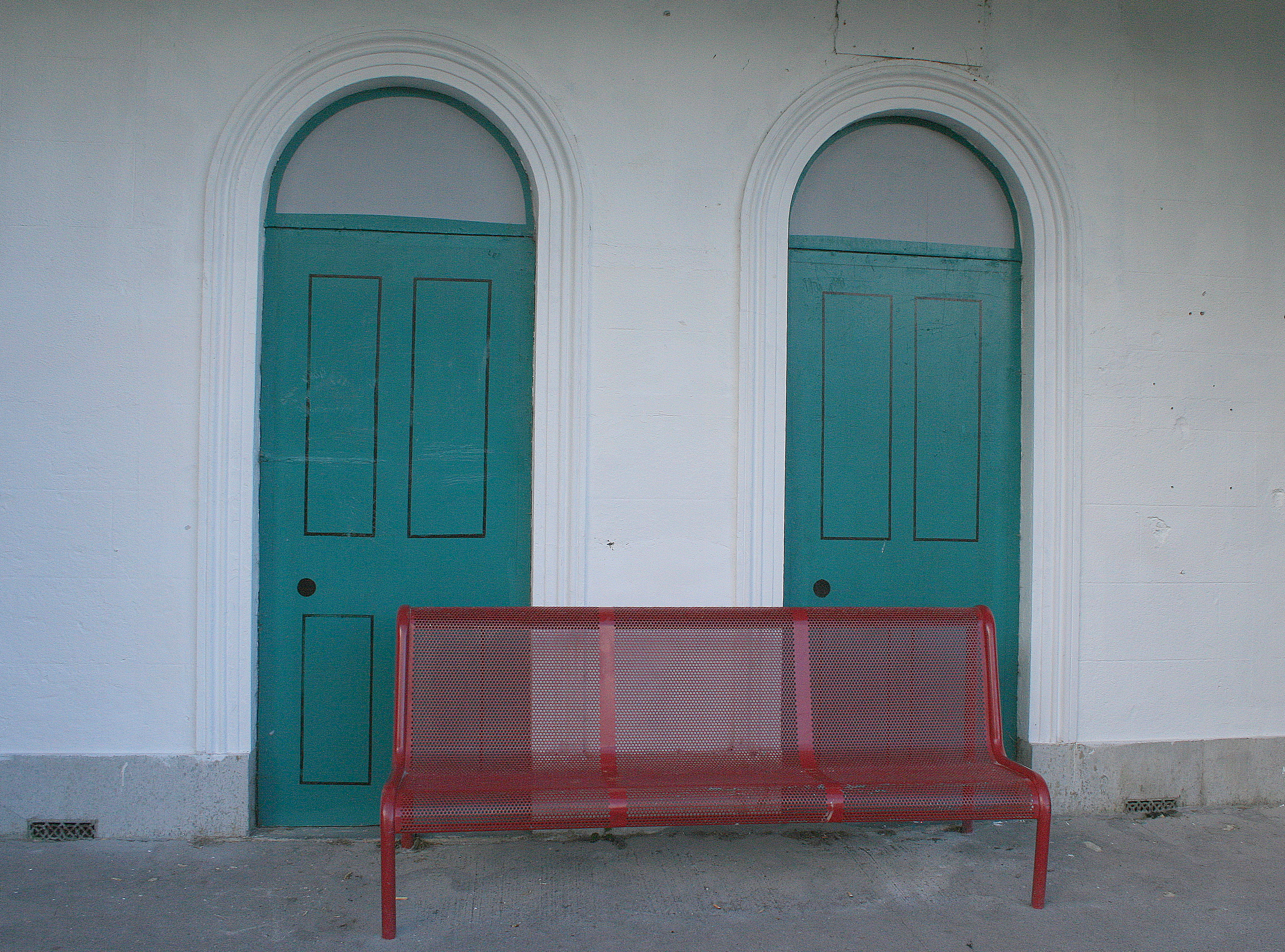 Cloughjordon railway station, County Tipperary. The doors are painted on!